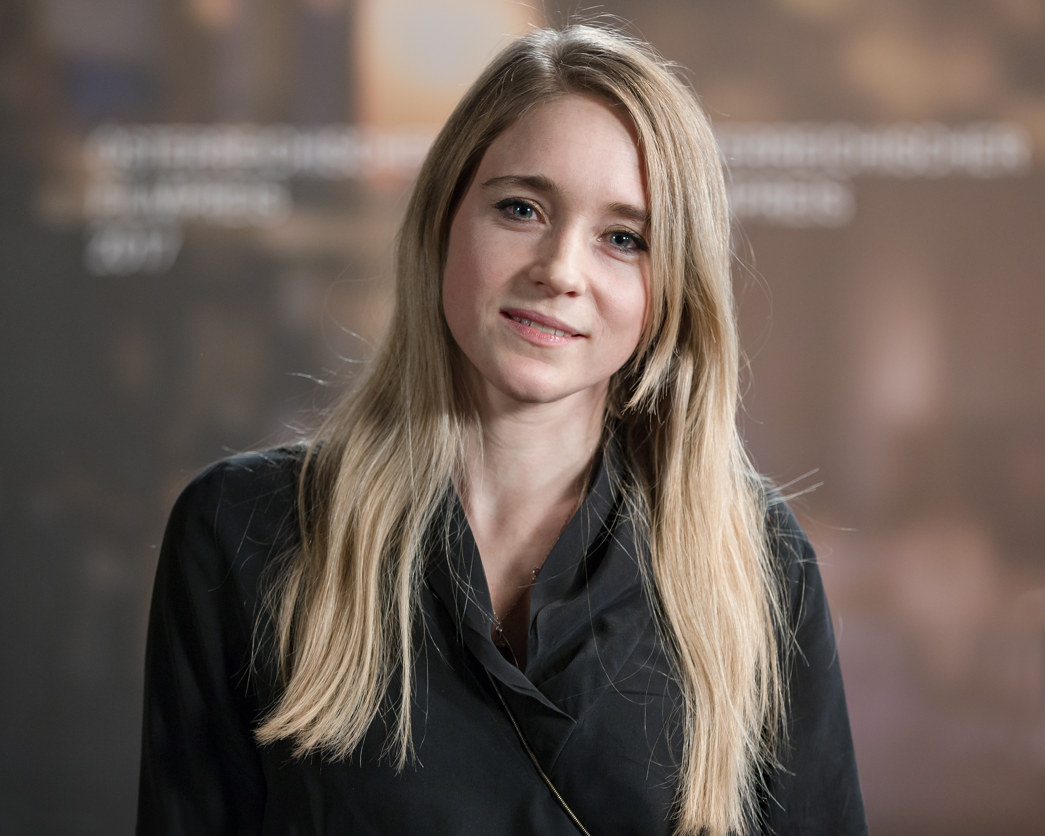 Joana Scrinzi, film editor of Tomcat, at the Austrian Film Awards 2017 (Rathaus, Vienna,Austria).